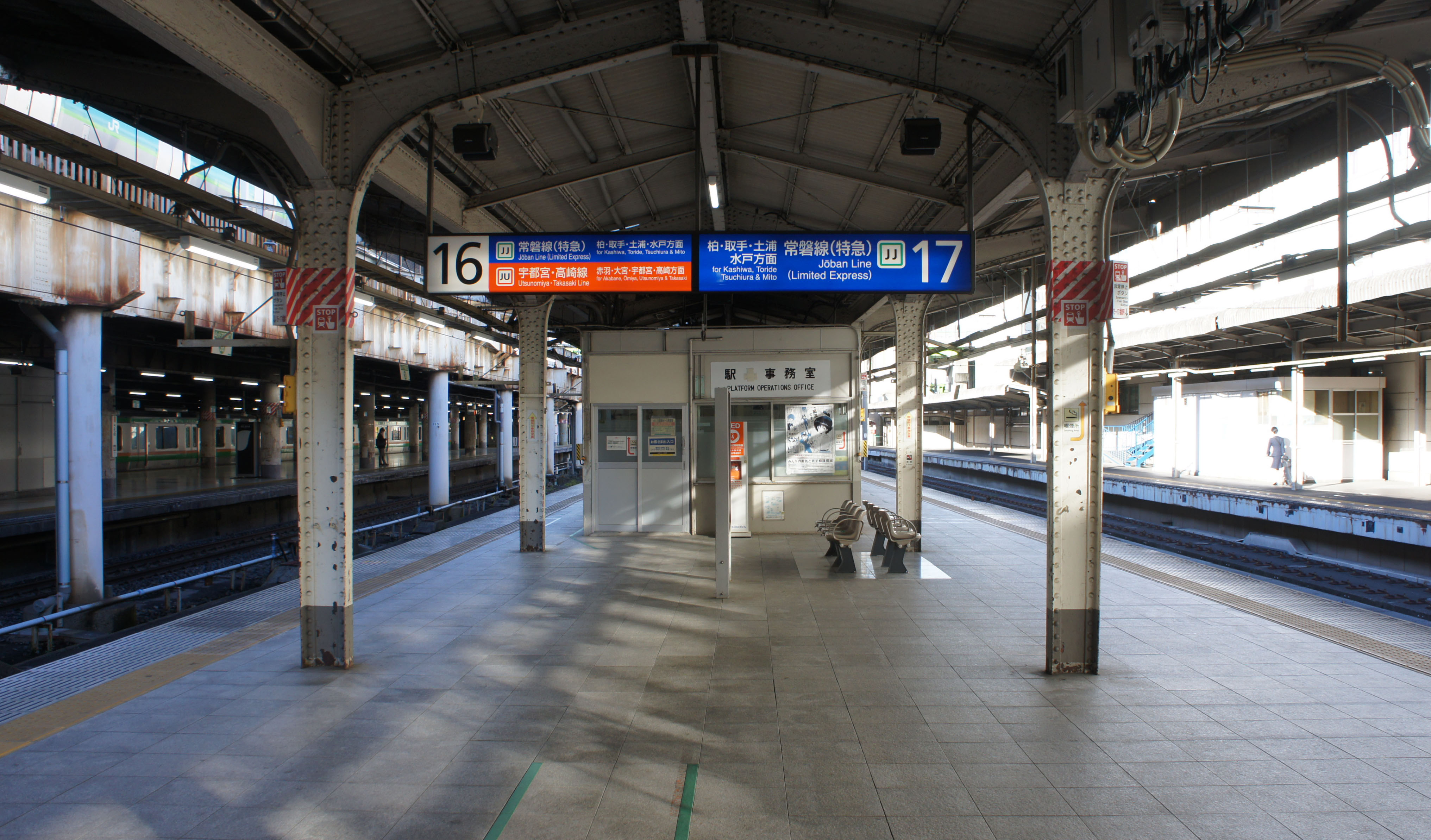 Platform 16・17 of JR Ueno Station Sony NEX-3 + E 18-55mm F3.5-5.6 OSS